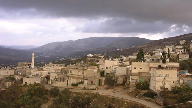 Author: Thameen Darby